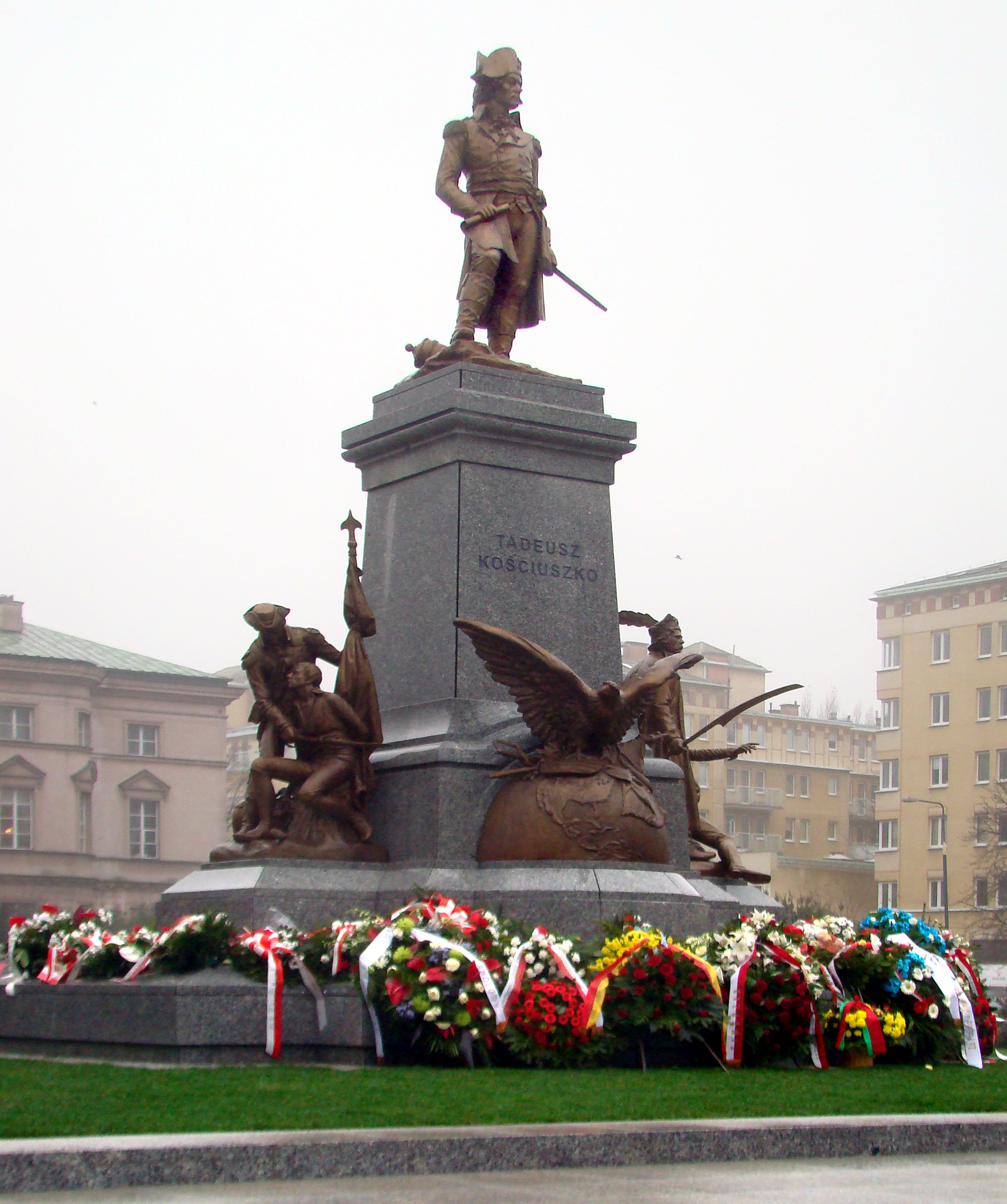 Tadeusz Kościuszko monument in Warsaw